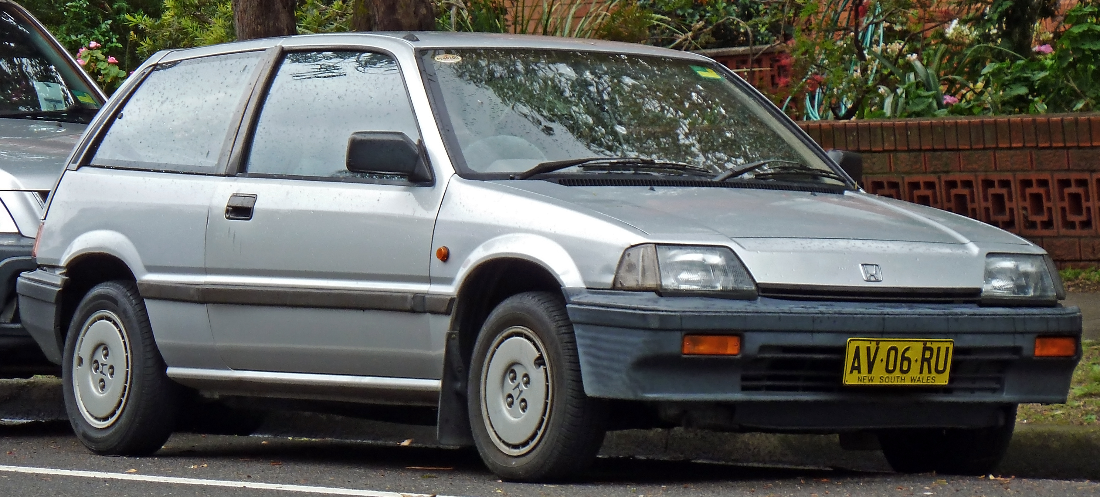 1987 Honda Civic (AH) GL hatchback. Photographed in Dolls Point, New South Wales, Australia.